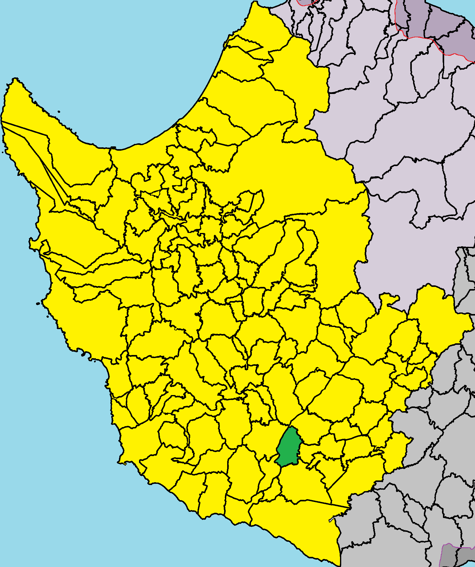 Choletria in Paphos District.